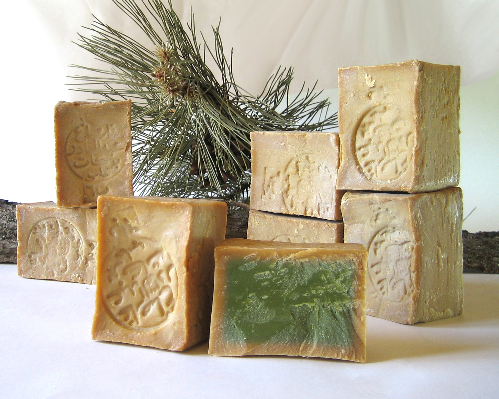 Traditional Aleppo Soaps